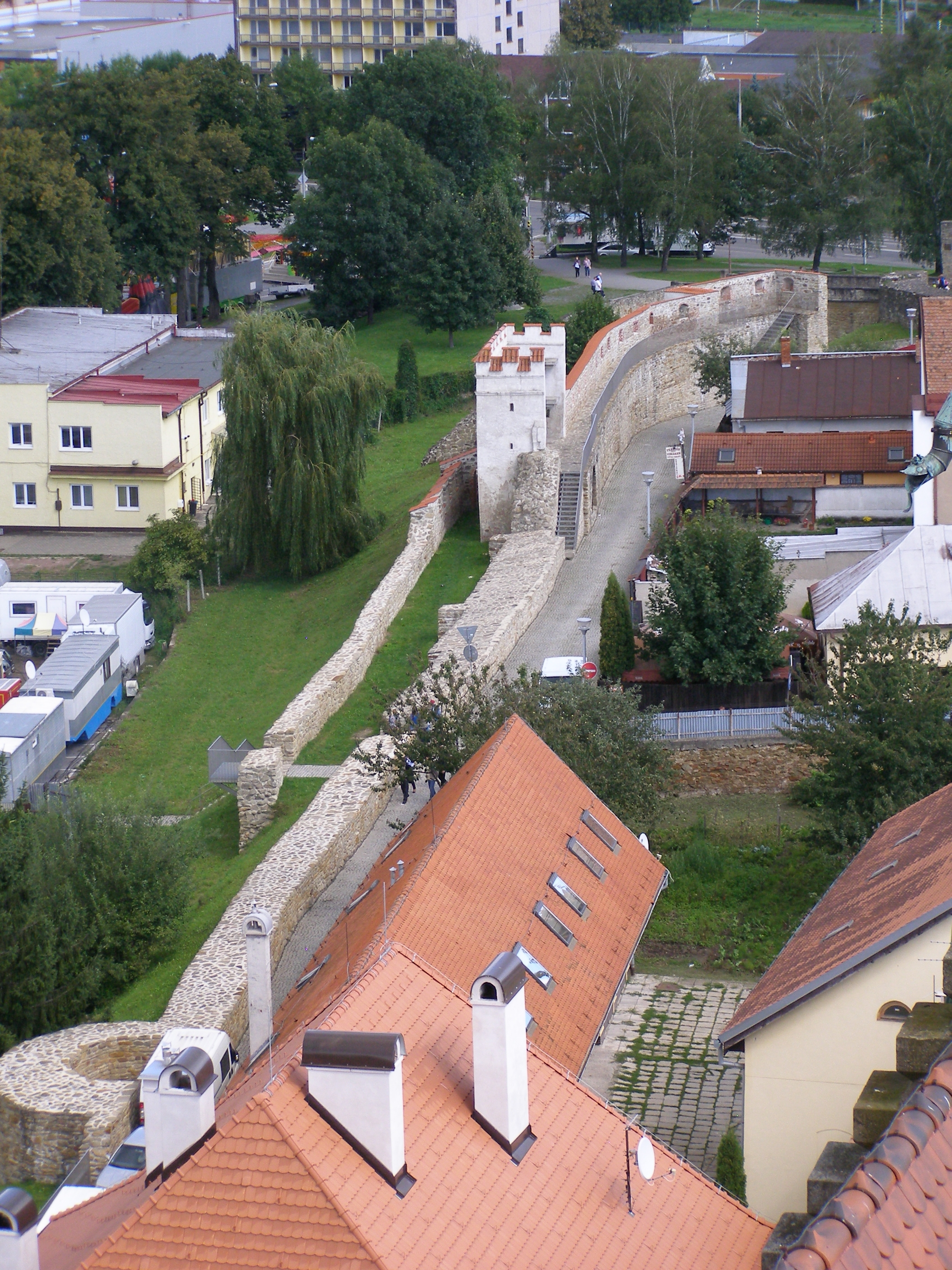 Bardejov - view from the St. Giles' basilica tower